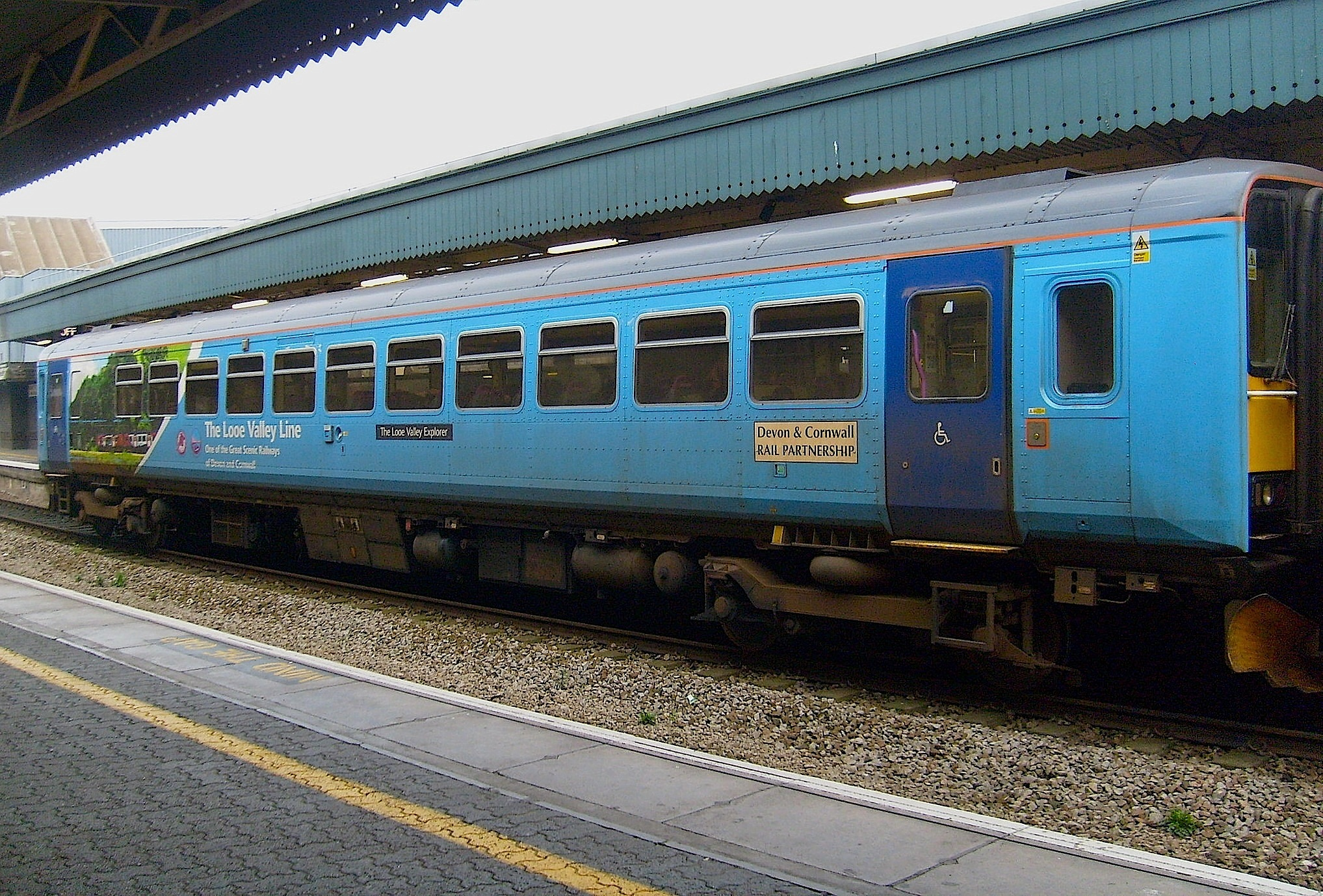 Wessex Trains refurbished Class 153 No. 153369 'The Looe Valley Explorer' at Bristol Temple Meads